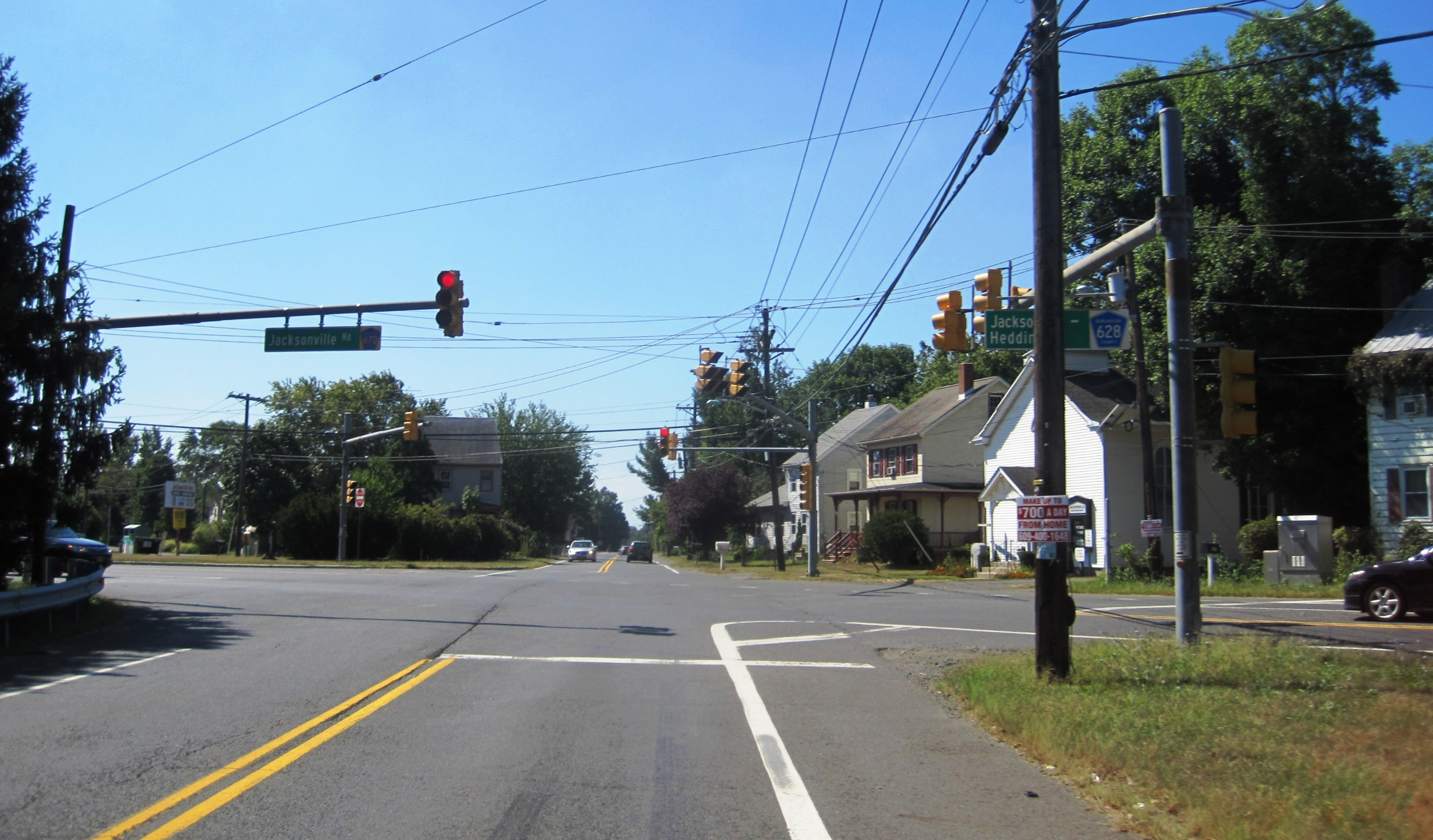 Photo of Jacksonville, New Jersey, an unincorporated community within Springfield Township, Burlington County. Photo taken along southbound Jacksonville-Hedding Road (County Route 628) at CR 670.